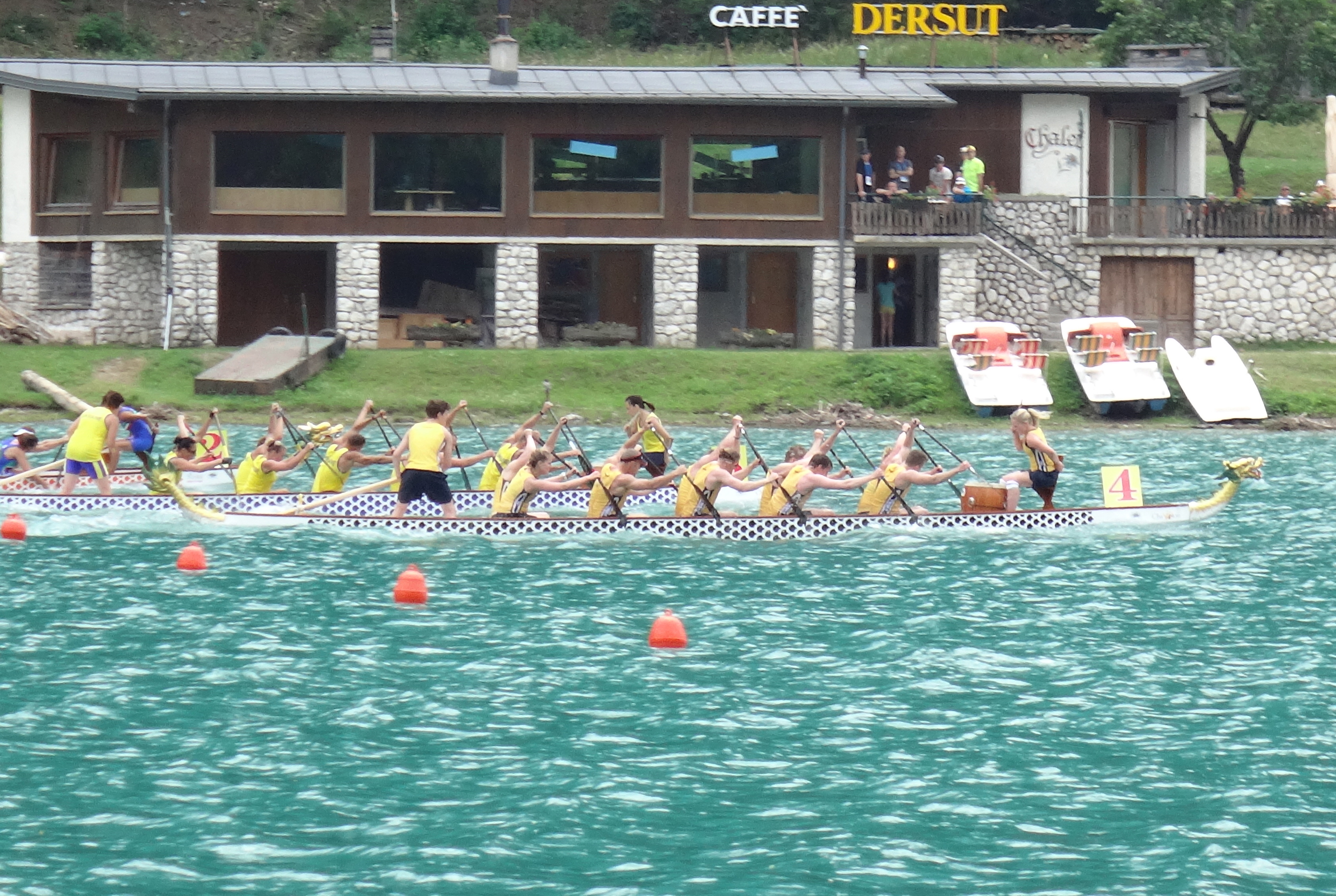 (ECA European Dragon Boat Racing Championships 2015 in Auronzo di Cadore, Italy. Small boat senior mixed 500 meter heats.)